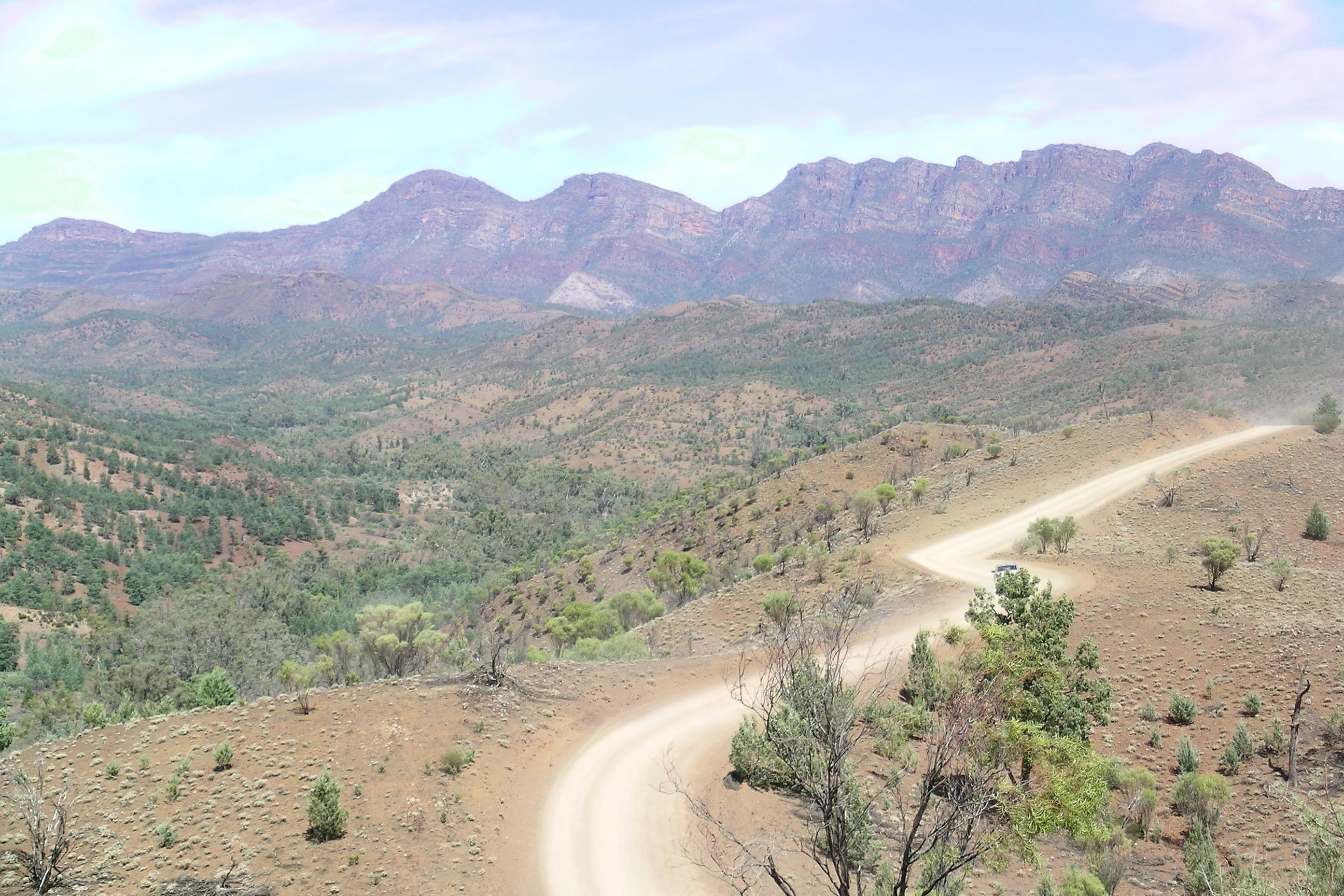 Wilpena Pound, South Australia, viewed from North "Razorback Lookout"